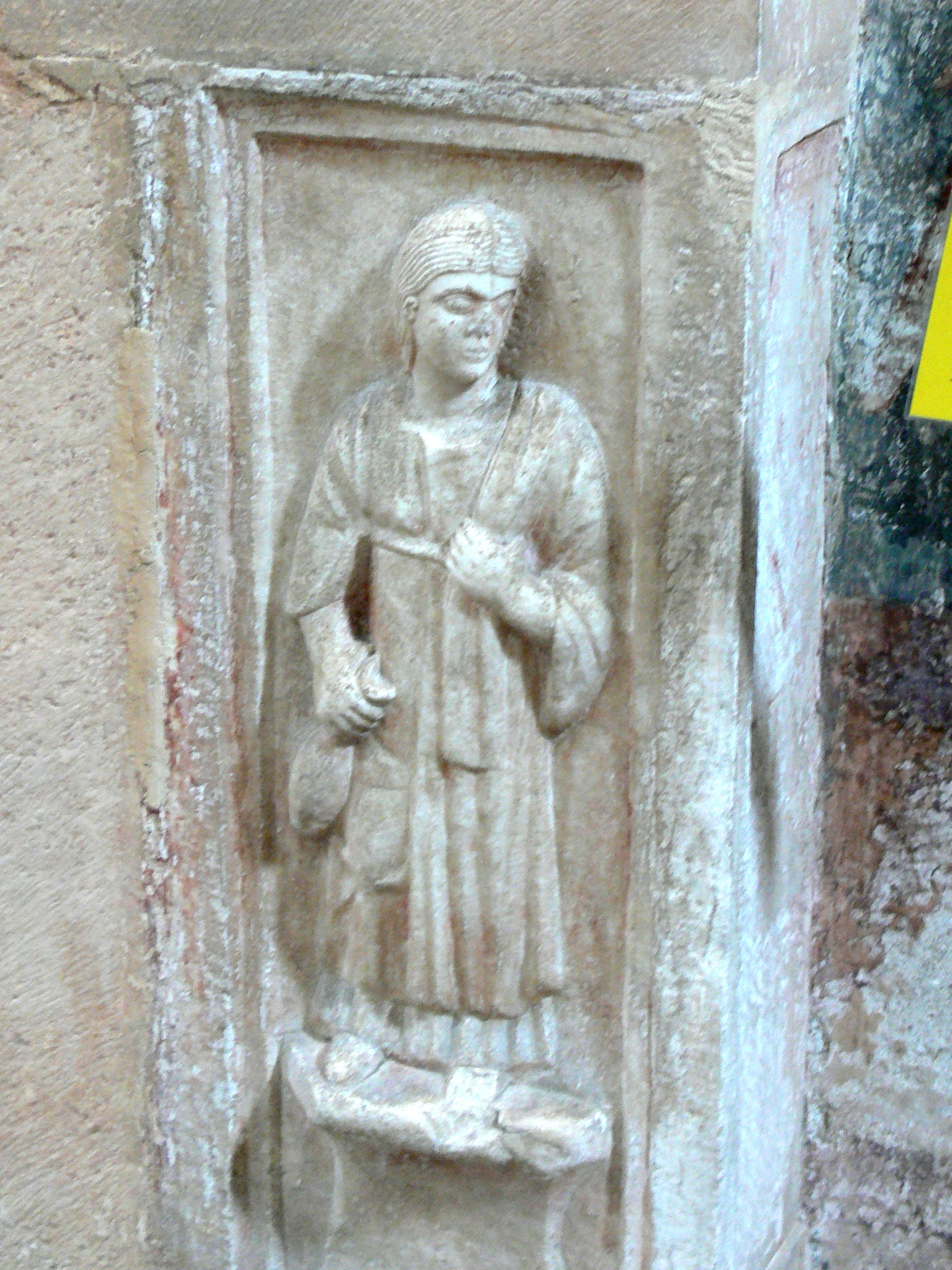 Gurk Cathedral. Roman tombstone showing a celtic farmer´s woman at the entrance of the crypt.